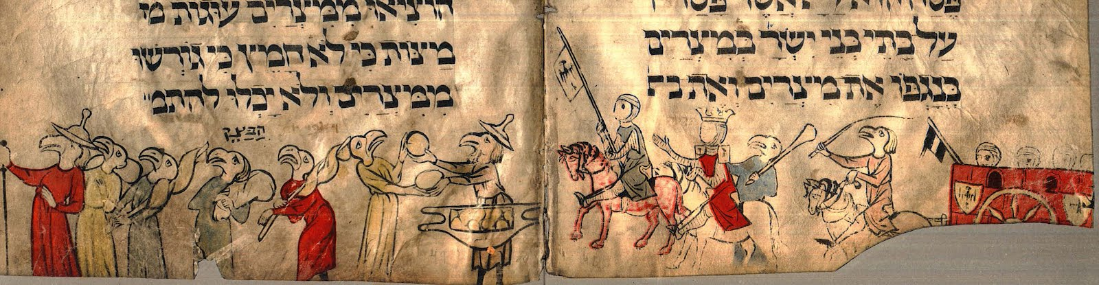 Illustration of Exodus in the Birds' Head Haggadah. The fleeing Jews are depicted with birds' heads, while Pharao and most of the pursuing Egyptians have blank circles with or without eyes as heads; two of them, however, have bird's heads.